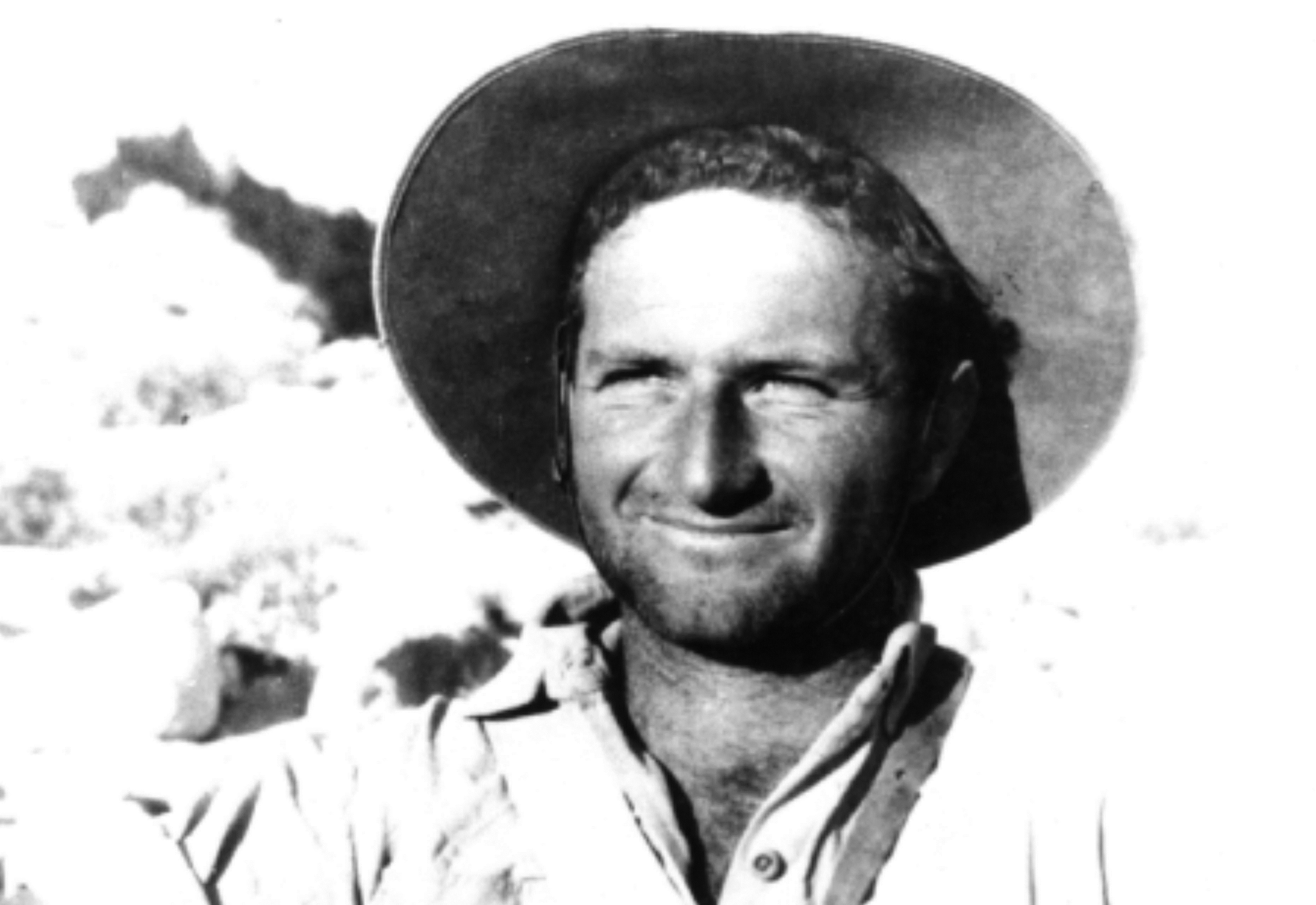 The Palmach, Israel Defense Forces